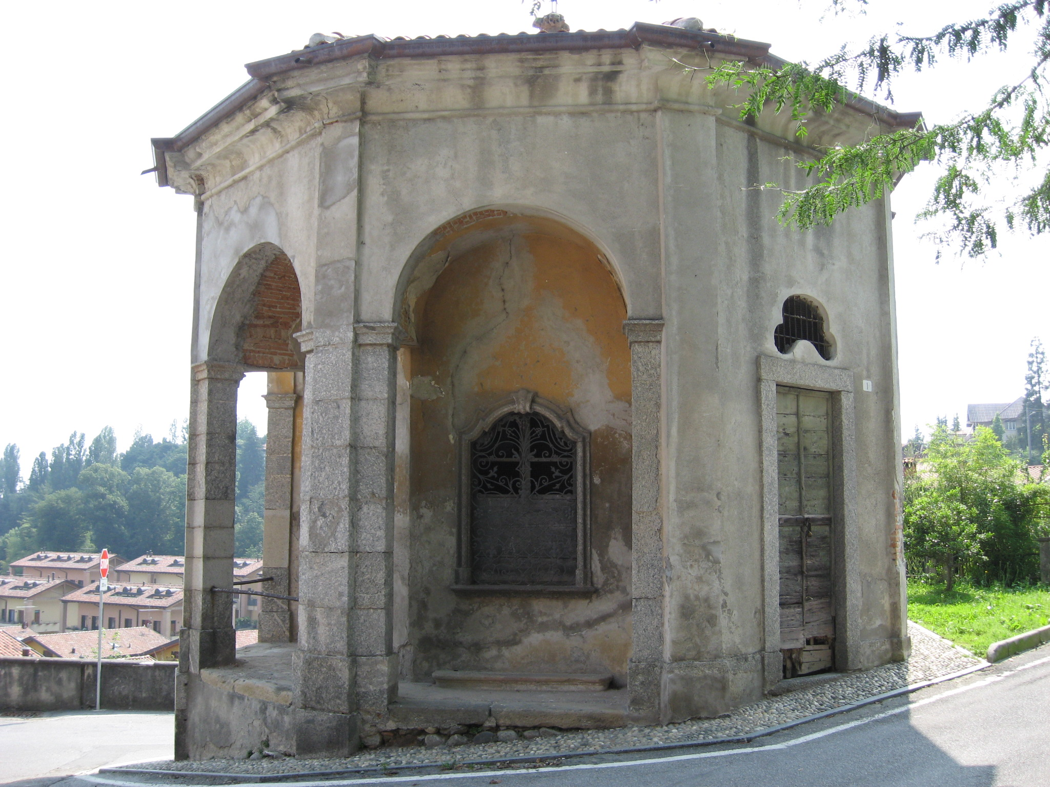 Charnel house of the "Chiesa dei Santi Marcellino e Pietro" in Imbersago, Italy